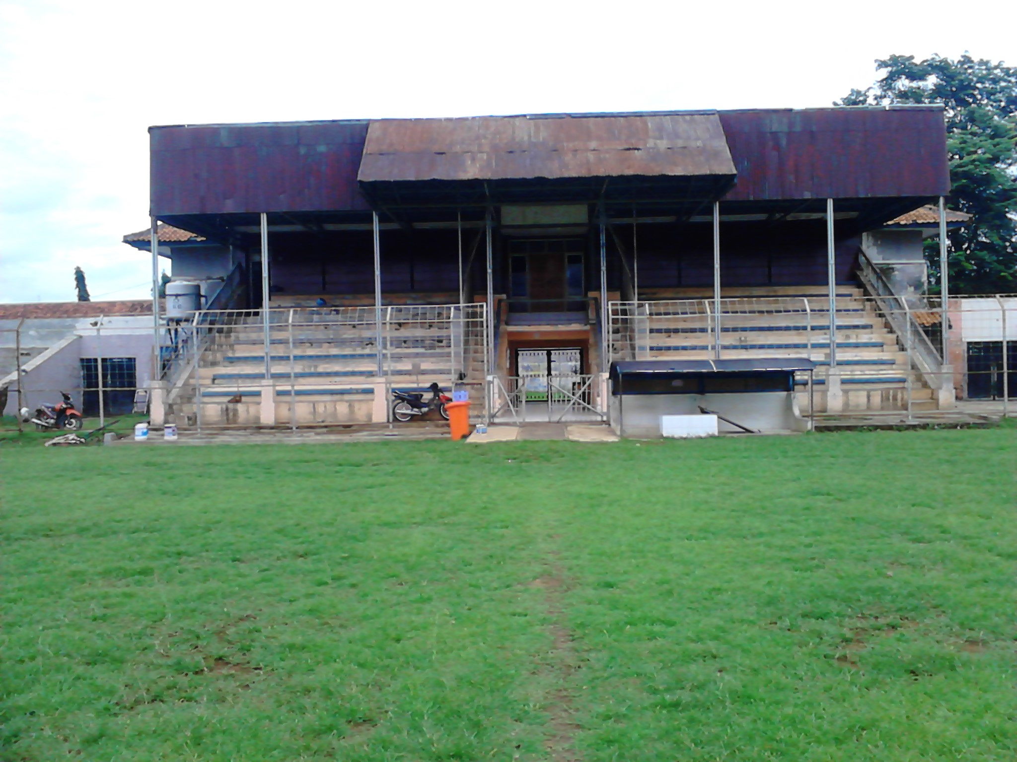 Persikas